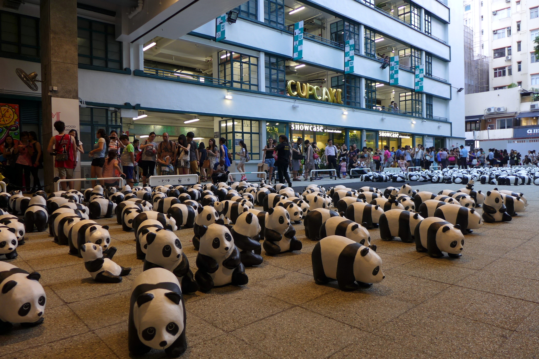 PPMQ 1600 Pandas Zone Exhibition